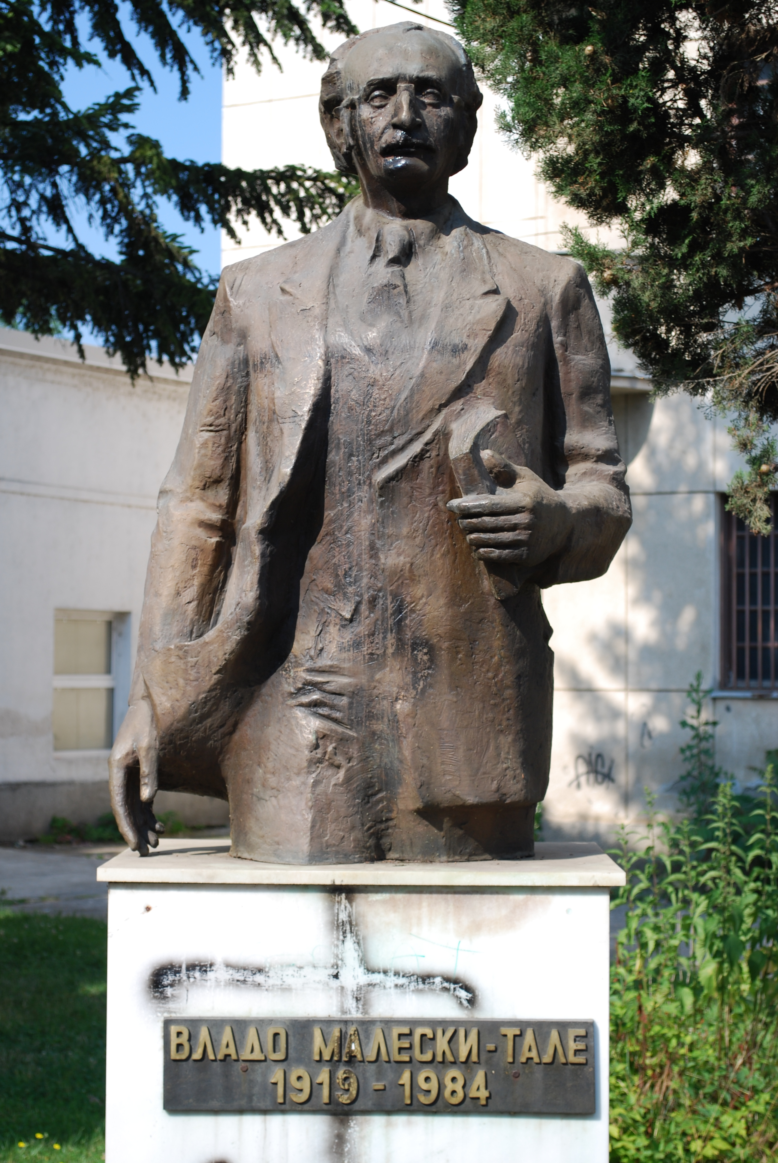 Monument of Vlado Maleski in Struga, Macedonia